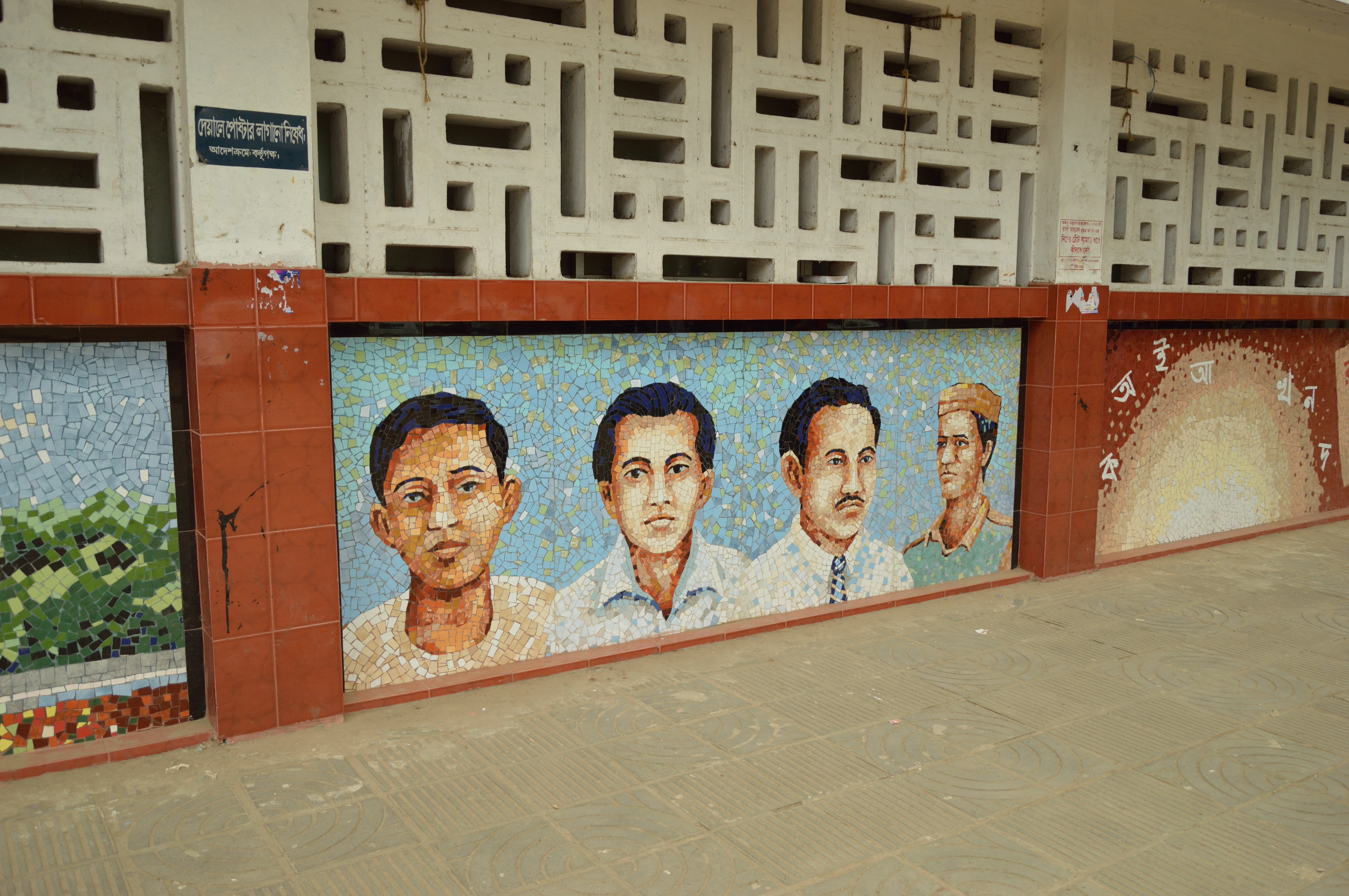 Photographed in Dhaka, Bangladesh.